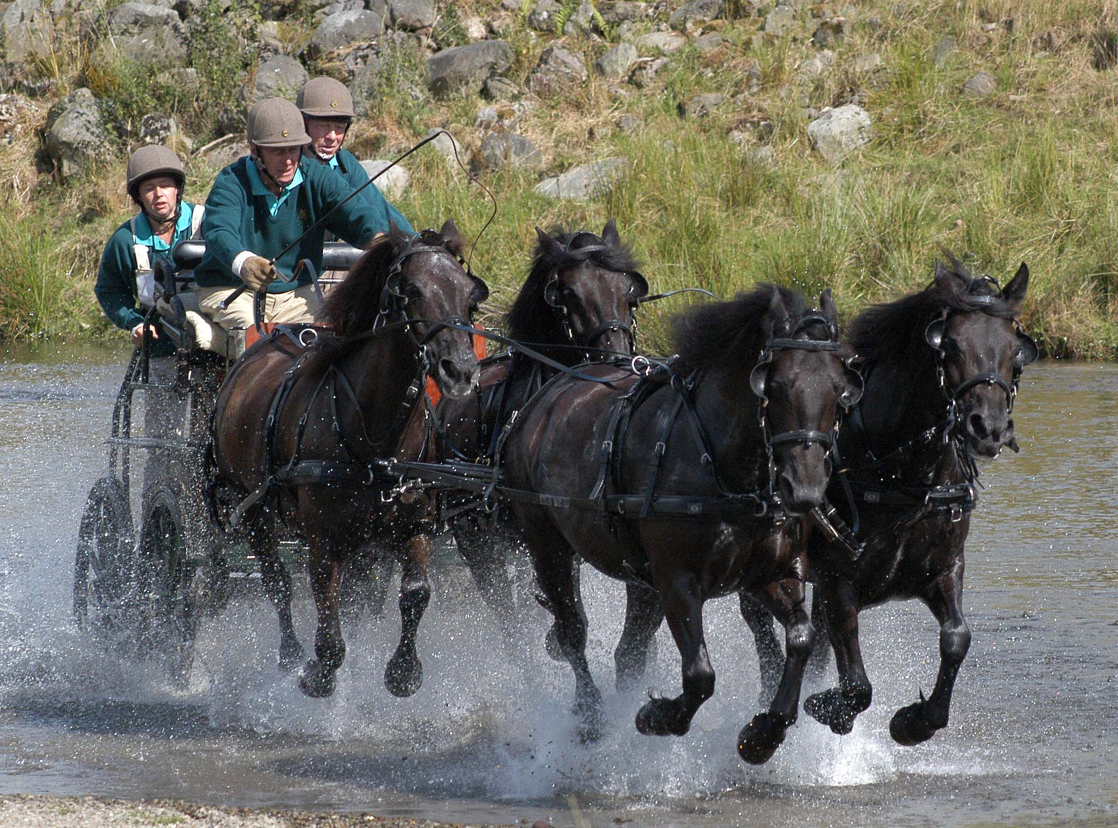 HRH Prince Philip, the Duke of Edinburgh driving the water obstacle at Lowther Driving Trials in Cumbria, UK in 2005. This image is copyright